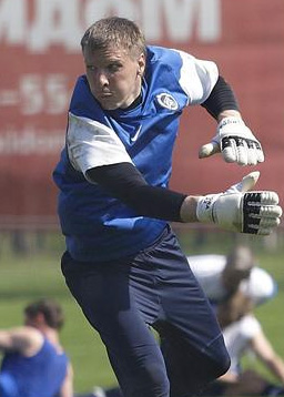 Russian goalkeeper Dmitry Borodin